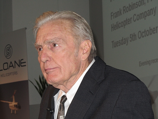 Frank Robinson, Founder of Robinson Helicopters, in October 2010